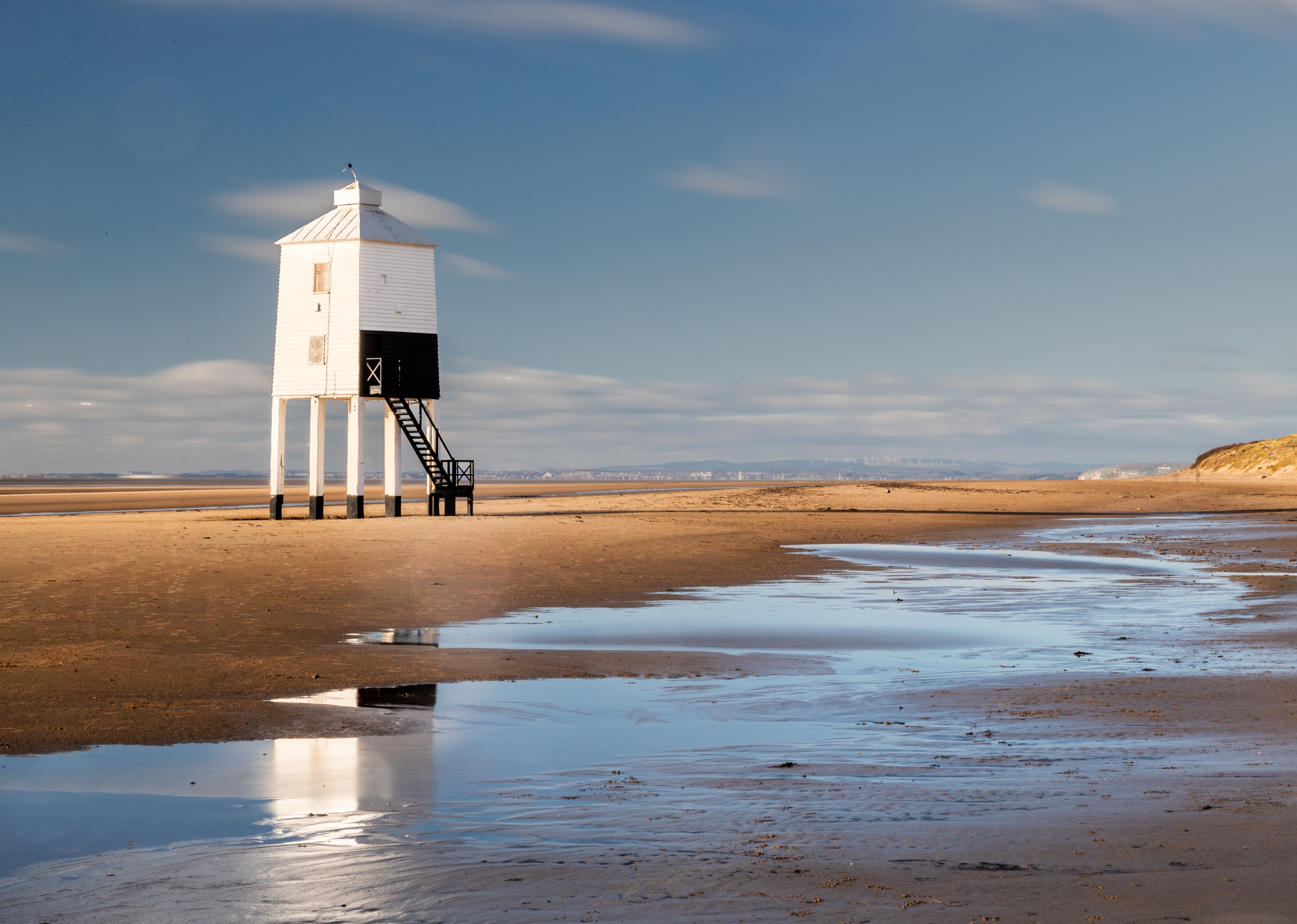 Burnham-on-Sea Low Lighthouse Wikidata has entry Q4999731 with data related to this item.